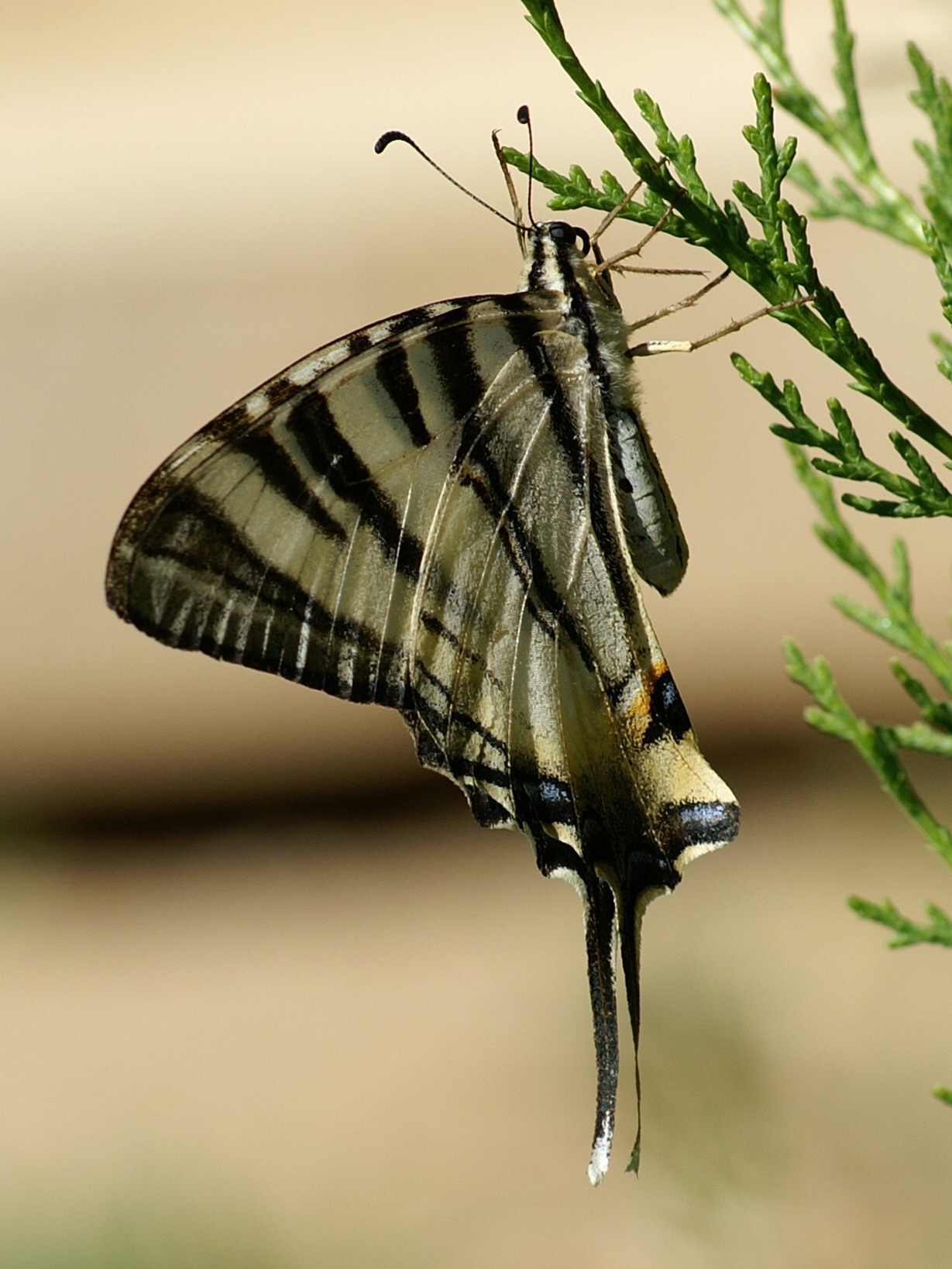 The Scarce Swallowtail is a butterfly found in gardens, fields and open woodlands. It is found in places with sloe thickets and particularly orchards.